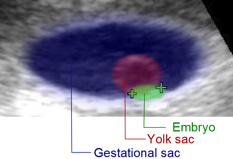 Obstetric ultrasound of embryo at 5 weeks, measuring 3 mm, with yolk sac above.